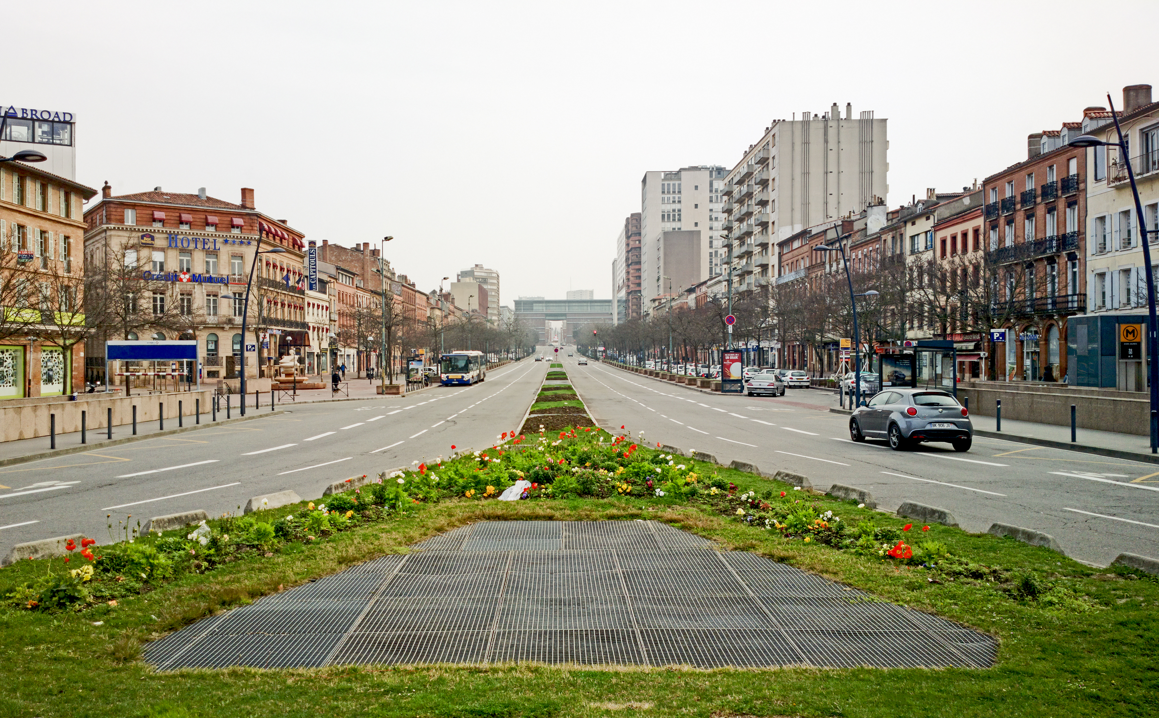 Allées Jean-Jaurès in Toulouse